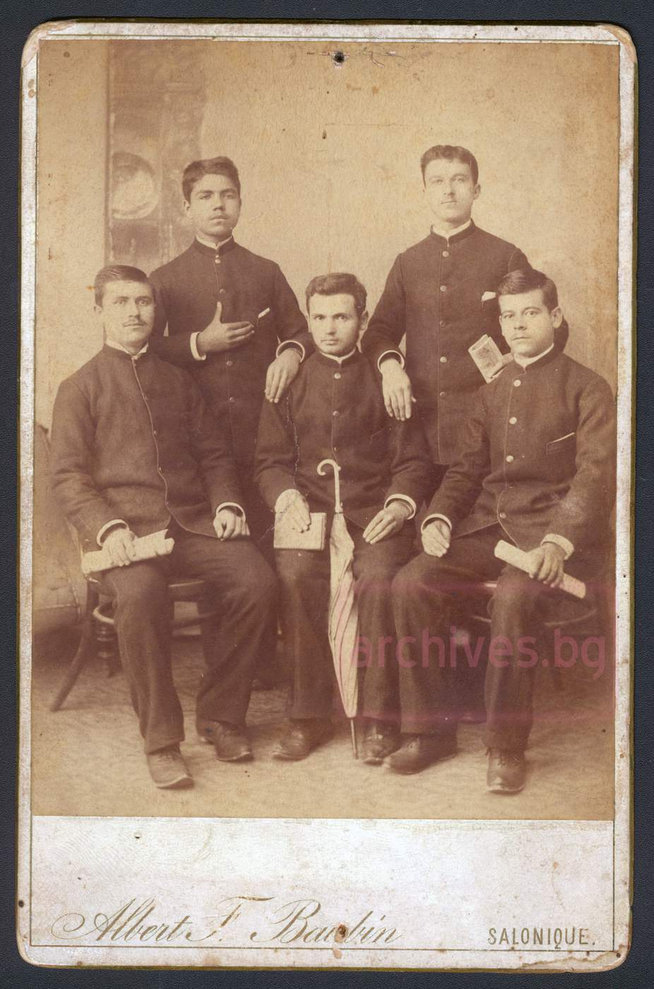 Students_in_Thessaloniki_Bulgarian_High_School